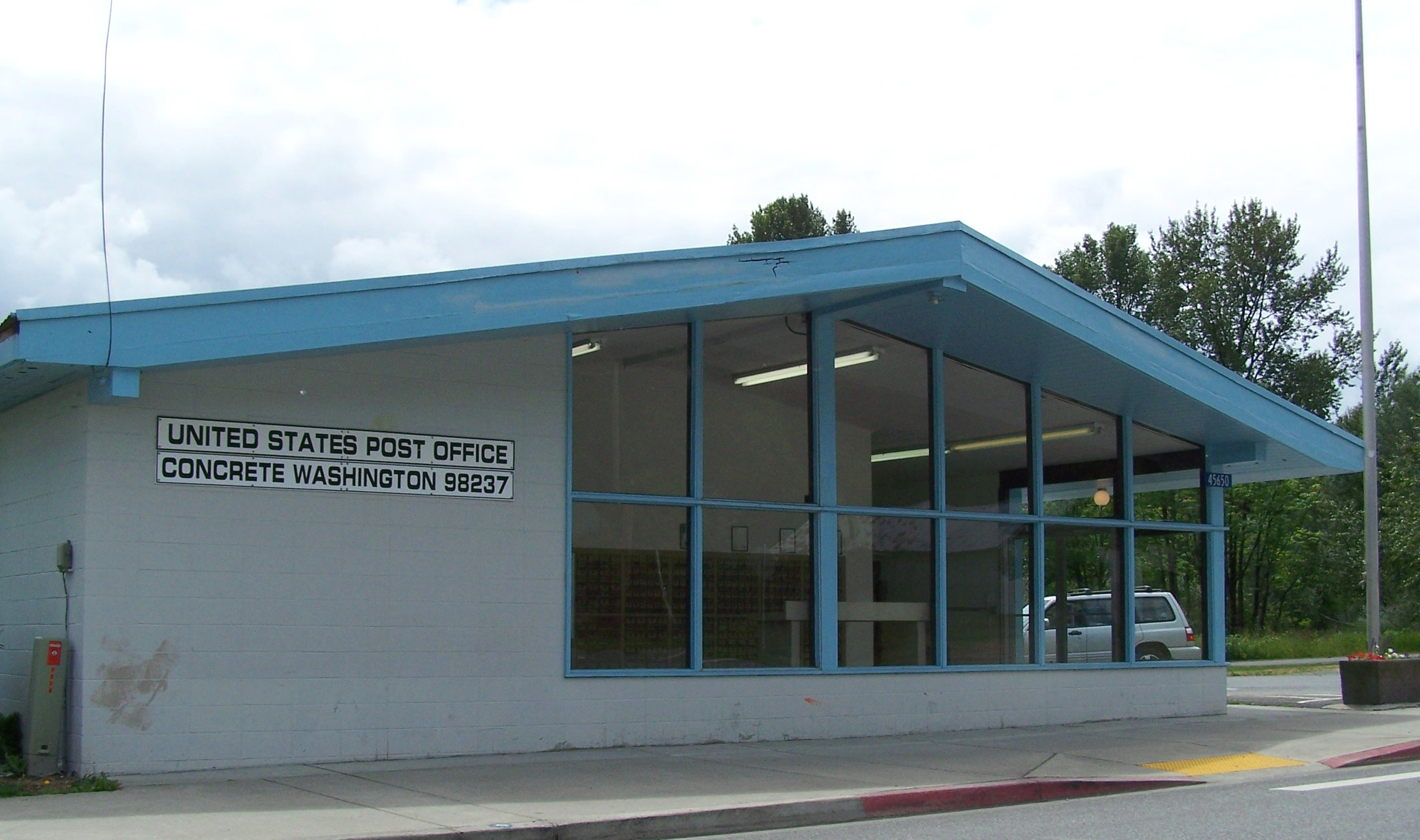 Concrete Post Office - Concrete, Washington